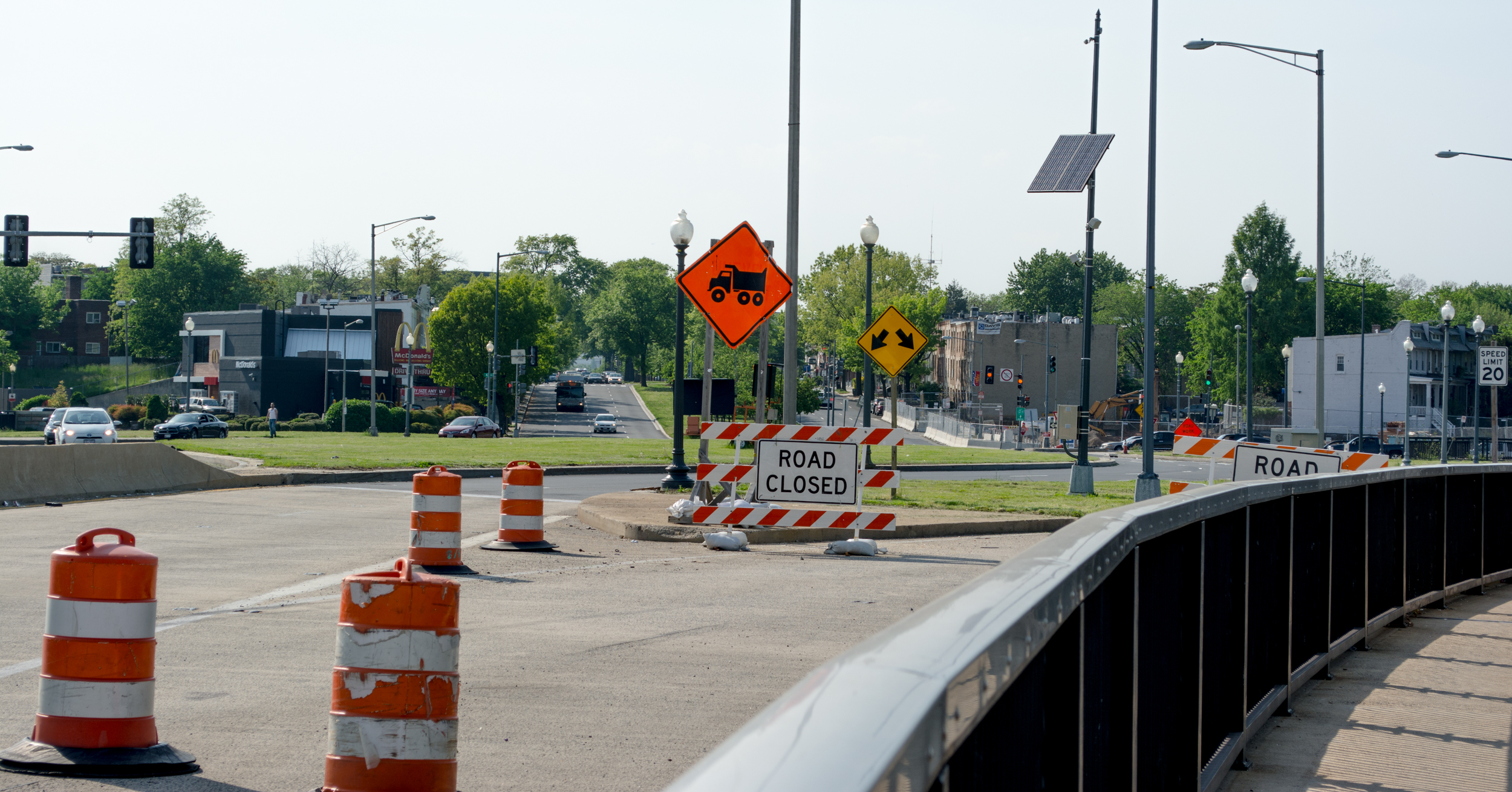 Looking northwest from John Philip Sousa Bridge in Washington, D.C., in the United States in May 2014 at the now-unused off-ramp to Interstate 695, and at Barney Circle. Interstate 695 was part of the proposed Inner Loop Expressway in Washington, D.C. The interstate highway was to have continued northward along the western shore of the Anacostia River to U.S. Route 50. Significant opposition to the Inner Loop led to its cancellation, but not before the portion of Interstate 695 from 2nd Street SW to Barney Circle had already been completed. The tunnels beneath the circle and bridge were constructed in 1970 as part of the interstate project. Crudely planned off-ramps led from northbound Sousa Bridge to Interstate 695 westbound. Interstate 695 from the 11th Street Bridges to Barney Circle was decommissioned in 2012, and the off-ramp permanently closed. The dark roadway is Pennsylvania Avenue SE, which passes in a slight curving motion through Barney Circle before straightening out in a northwest direction. Traffic is approaching Barney Circle in the distance on southbound Pennsylvania Avenue SE.